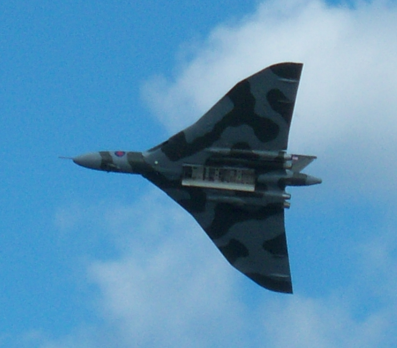 Avro Vulcan XH558 at the 2009 Sunderland International Airshow, being flown by Martin Withers, the pilot of Vulcan XM607, the first Vulcan to bomb Port Stanley airfield in the Falkland Islands, in Operation Black Buck One